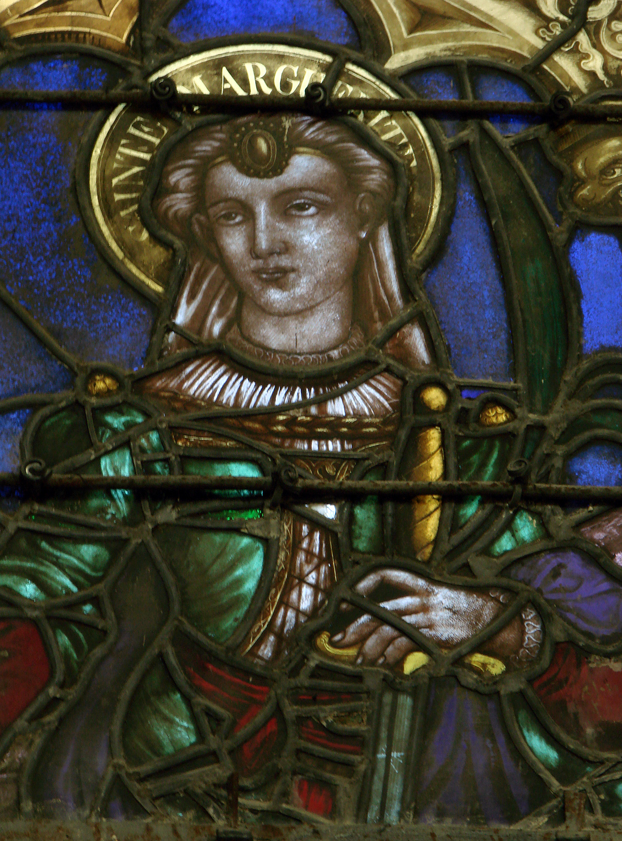 Stained glass window: Saint Margaret. Saint-Nicholas basilica, Saint-Nicolas-de-Port, Meurthe-et-Moselle, Lorraine, France.